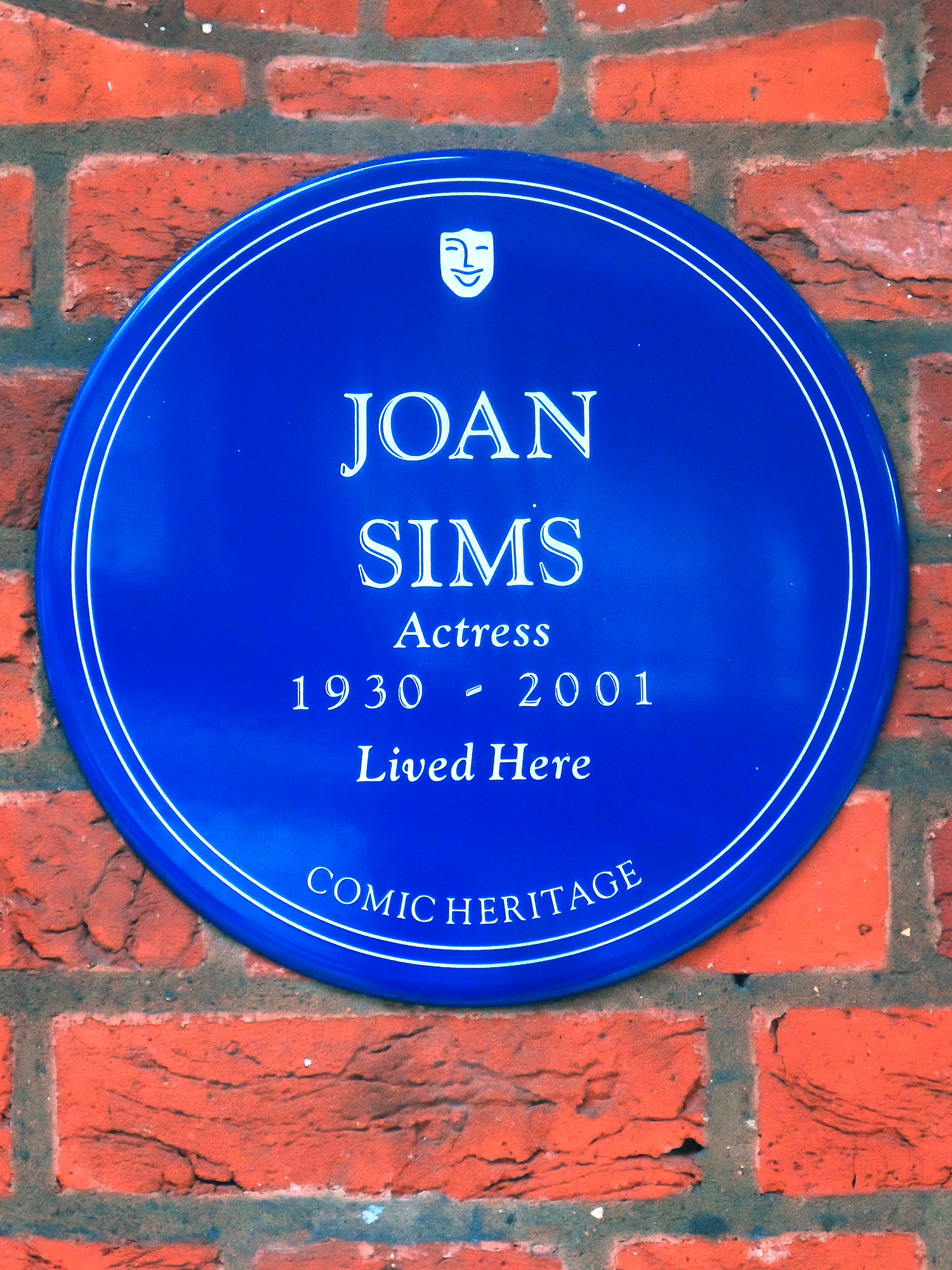 Blue plaque erected on 29th September 2002 by Comic Heritage at Esmond Court, Thackeray Street, Kensington, London W8 5HB